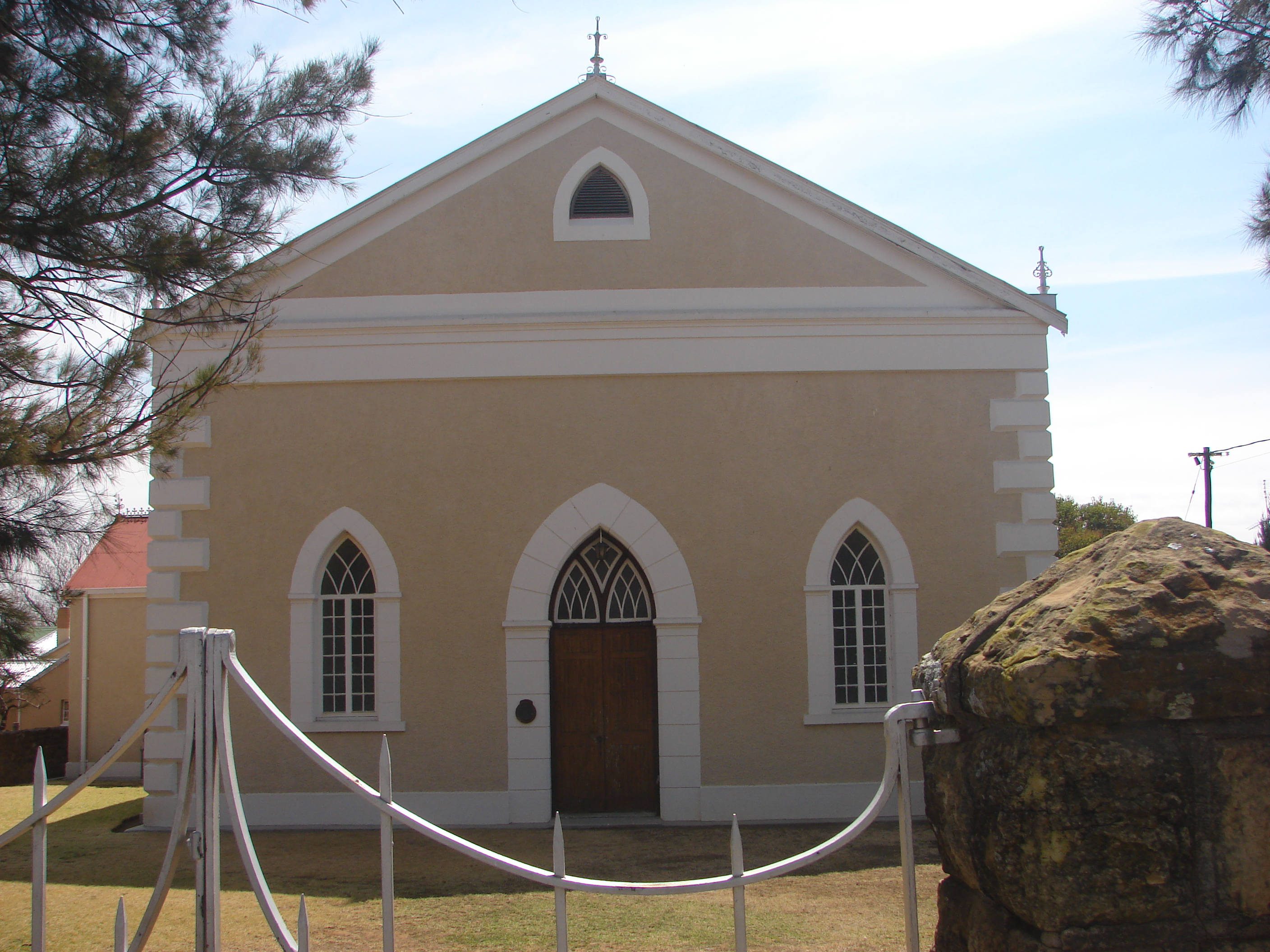 Old Reformed church in Boshoff Street, Reddersburg SARHA register number 9/2/332/0004